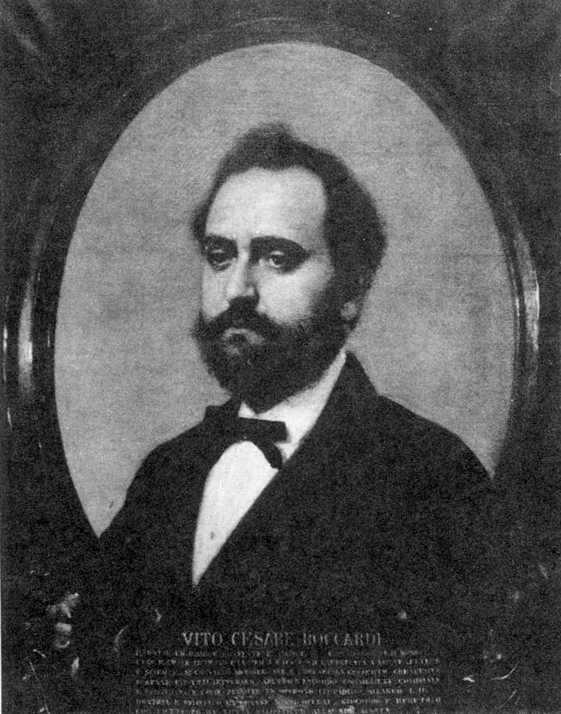 1876 portrait of Vito Cesare Boccardi